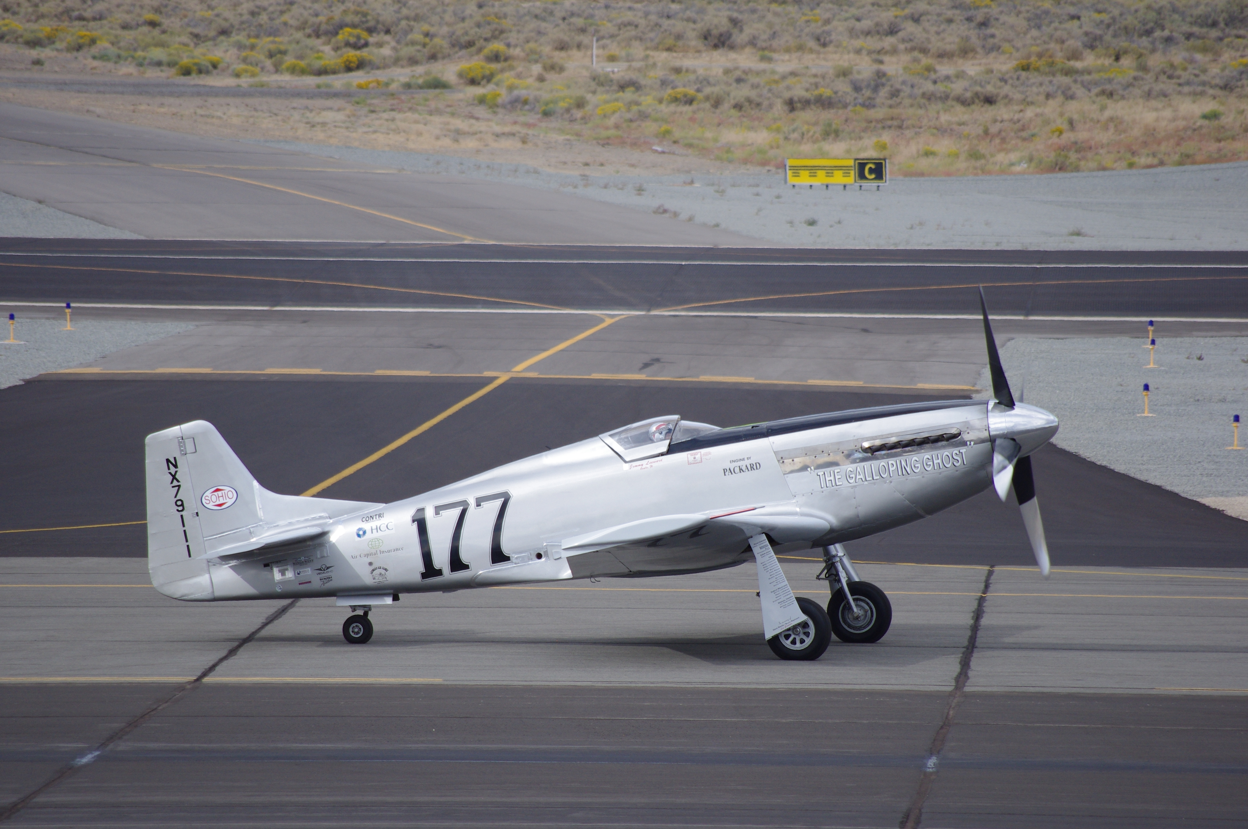 I pray for victims of the tragic crash.